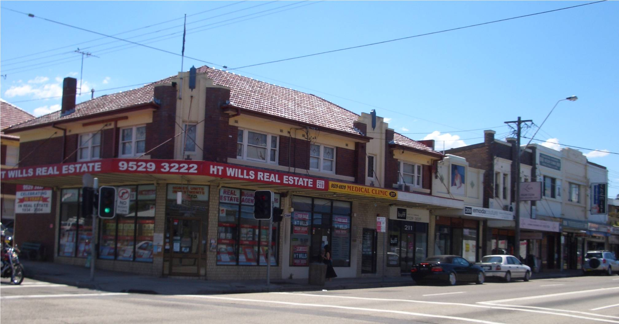 Rocky Point Road, Ramsgate, Sydney, intersection with Ramsgate Road